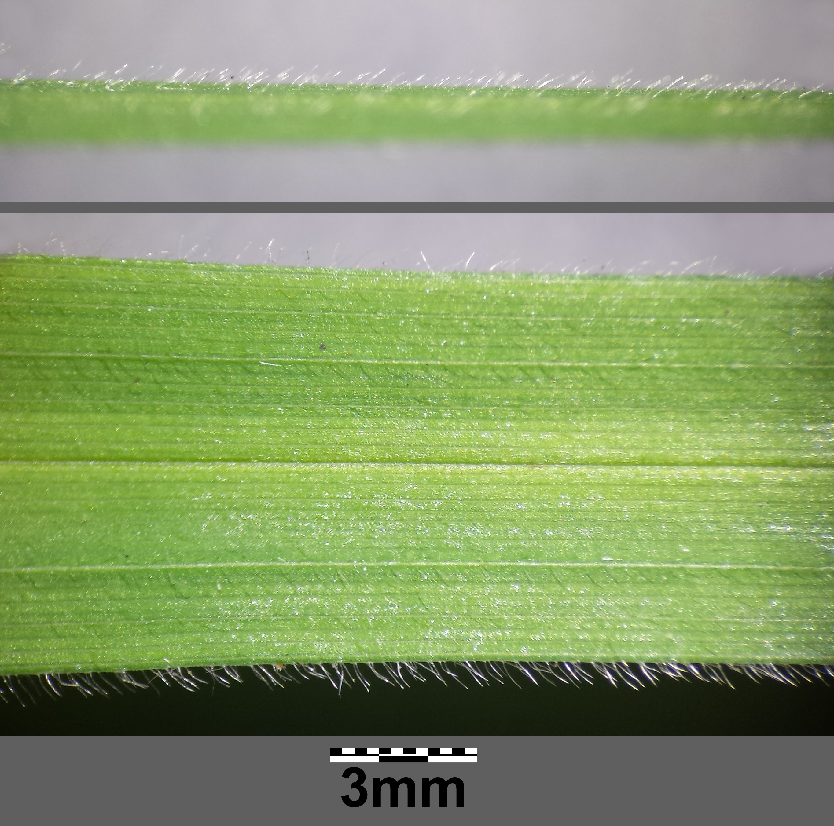 Leaf (detail) Above: side view Below: top view Taxonym: Carex pilosa ss Fischer et al. EfÖLS 2008 ISBN 978-3-85474-187-9 Location: Rohrwald, district Korneuburg, Lower Austria - ca. 250 m a.s.l. Habitat: dedicious forest